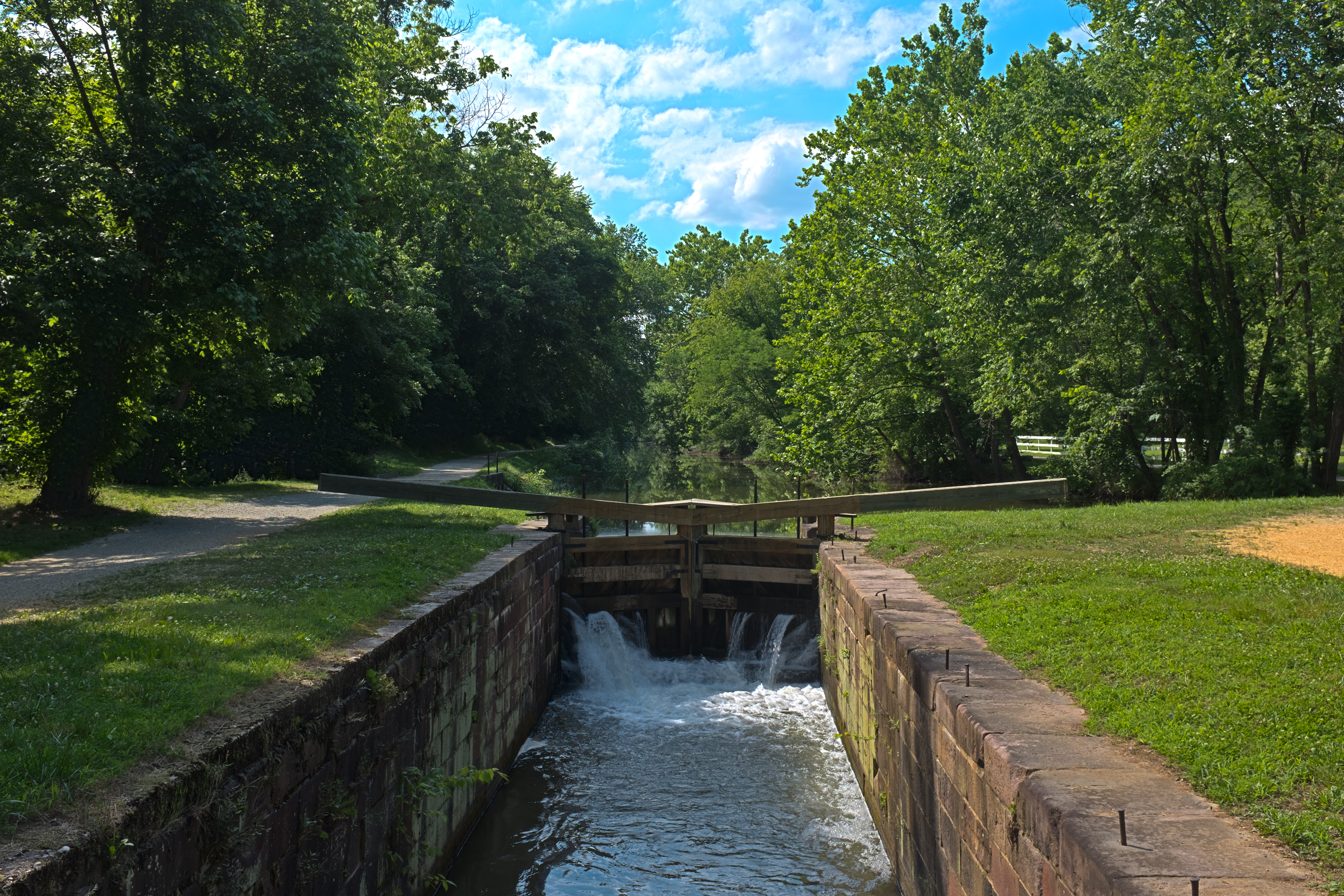 Pennyfield Lock (22) on Chesapeake and Ohio Canal